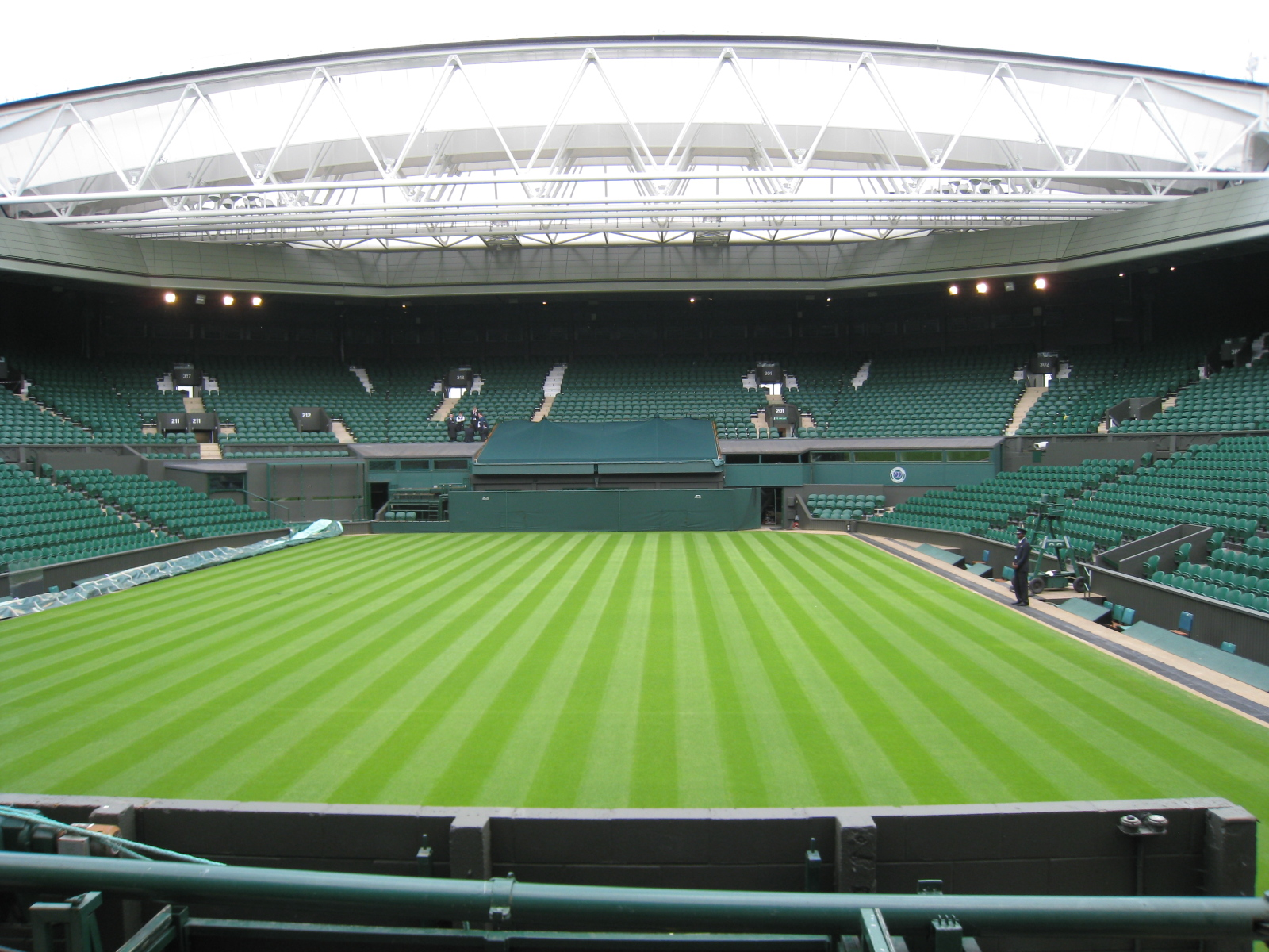 Centre Court in may 2009